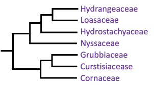 Based on Figure 11.10 in Soltis et al. 2018 Phylogeny and Evolution of the Angiosperms (Revised & Updated Edition). The University of Chicago Press. Chicago.